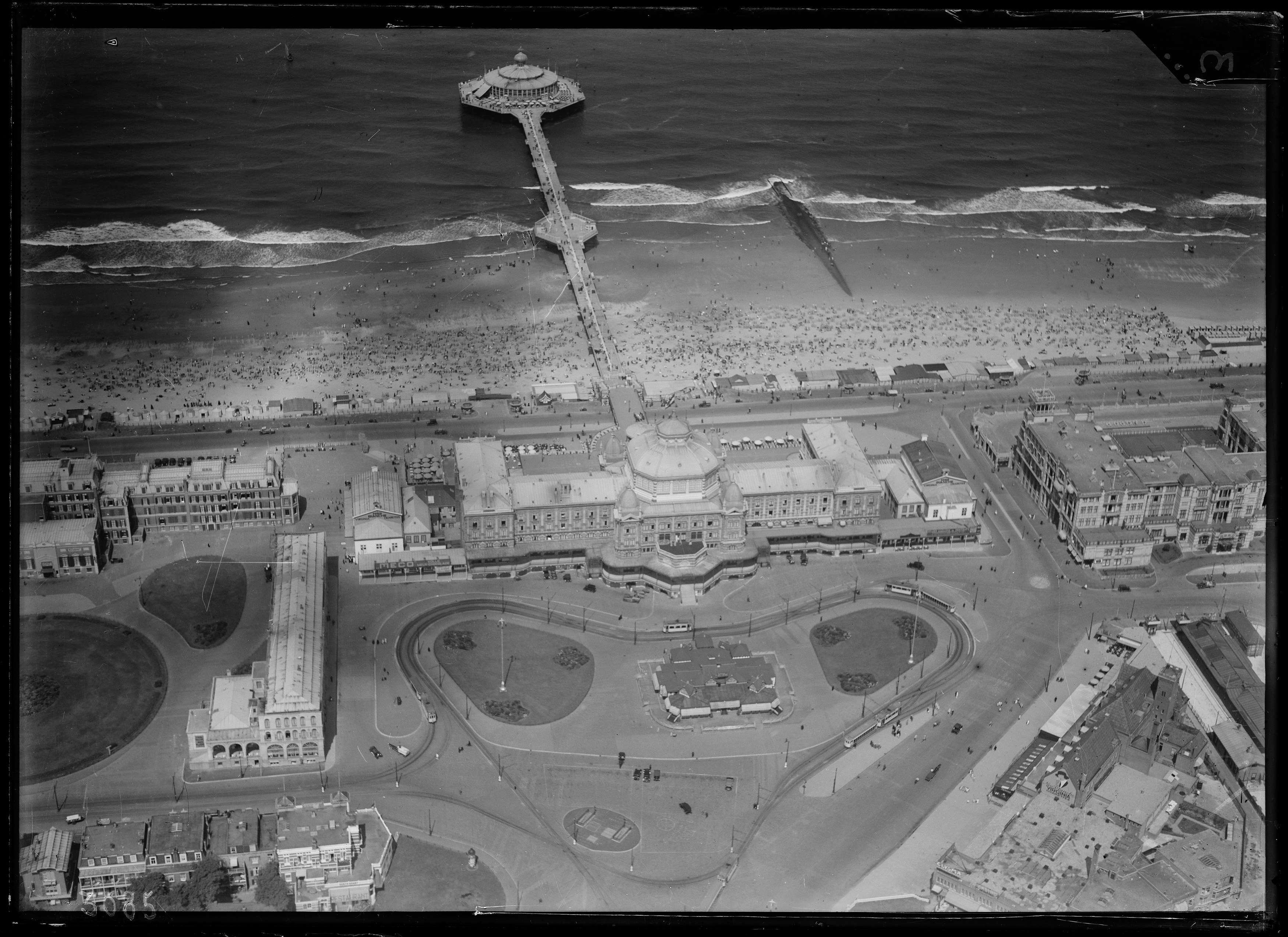 Aerial photograph of Scheveningen, The Netherlands. Pier, Wandelhoofd Koningin Wilhelmina.